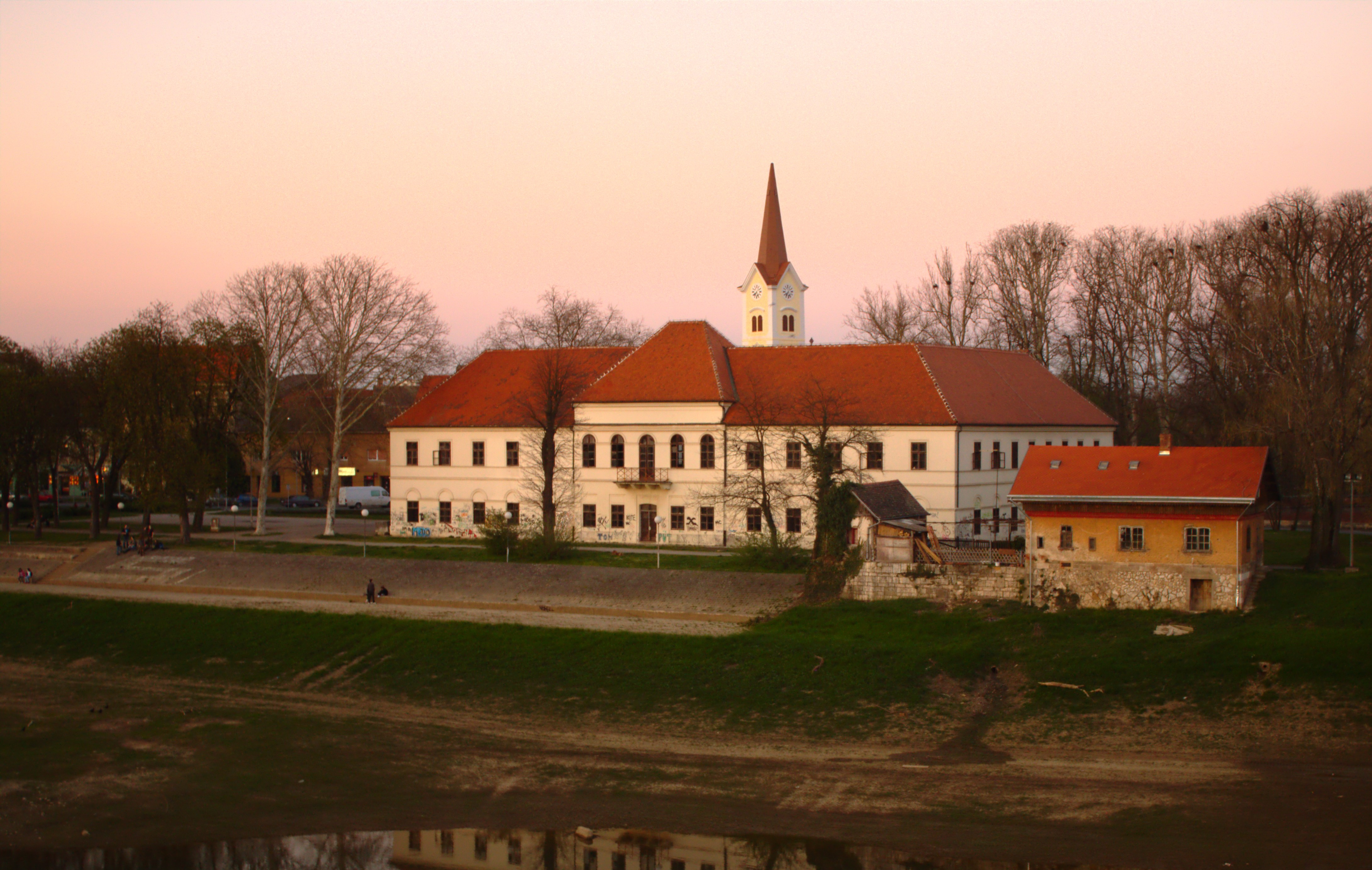 A small yard in Sisak, Croatia during sunset. The picture was taken from a nearby bridge across the Kupa River